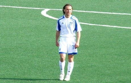 Maxim Buznikin in action FC Shinnik